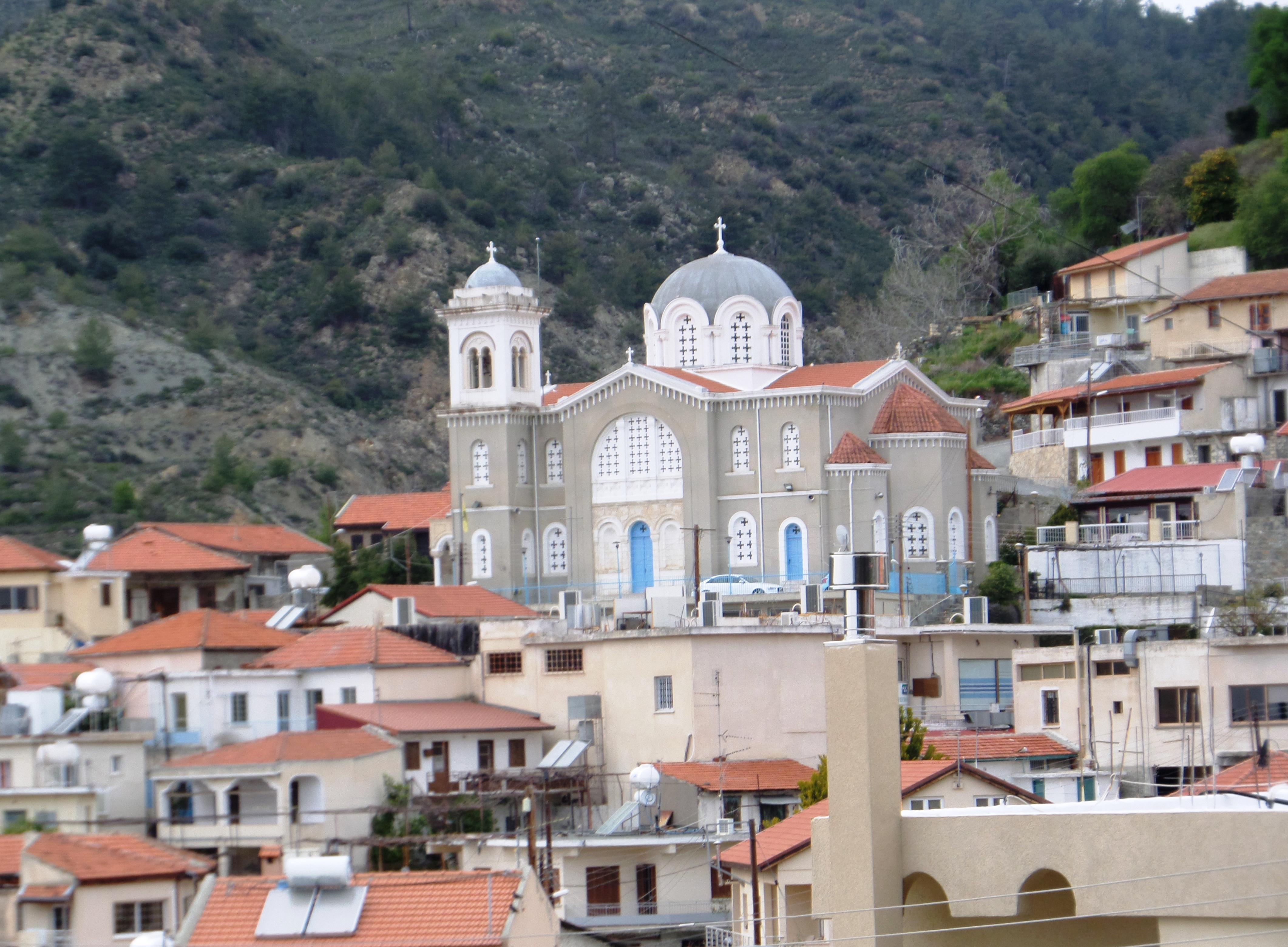 Saint John Lampadistis church at Pelendri.